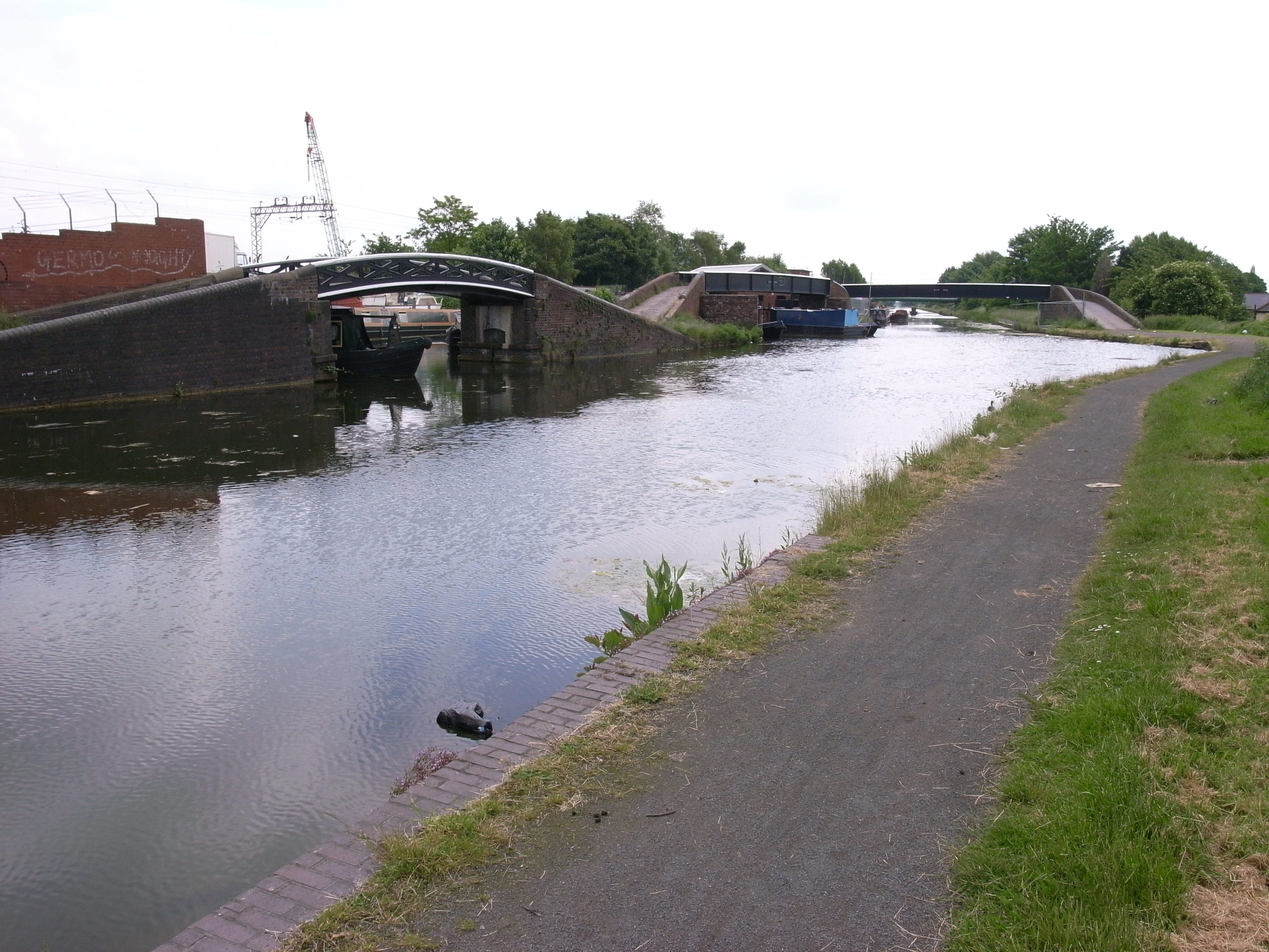 Watery Lane Junction on the BCN New Main Line Canal in Tipton, West Midlands, England. Flowing from the left through the right-hand bridge is the BCN New Main Line. The left and centre bridge lead to an old wharf, now Caggy's Boatyard (on this site since 1960s), which was also the start of the Toll End Communication Canal (built 1809, closed 1966 and later filled in). The widening of the water to the right was the entrance to the defunct Tipton Green Canal, built 1805, closed 1966 and later filled in, now a public walkway.